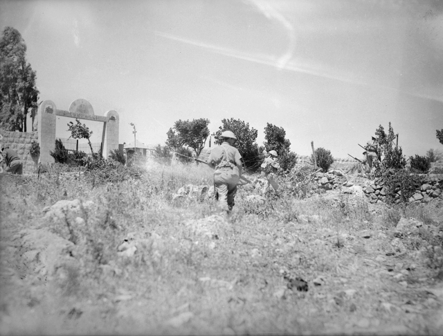 Australian infantry from the 2/33rd Infantry Battalion attack Fort Khiam, June 1941